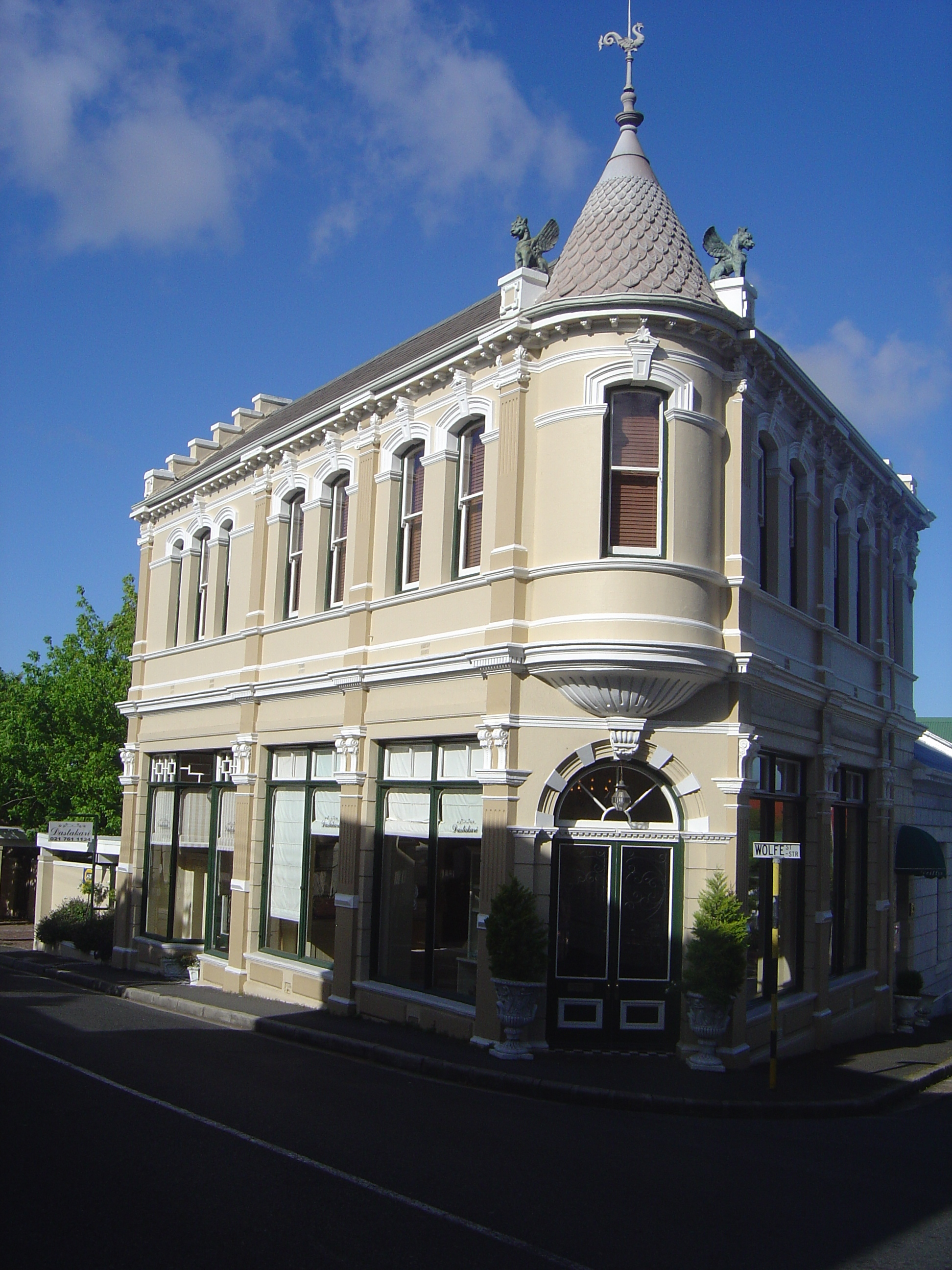 Griffyn House, a Victorian building on the corner of Lonsdale Road and Wolfe Street in Wynberg, Cape Town, South Africa. This media shows a South African Protected Site with SAHRA file reference 9/2/111/0002/006.